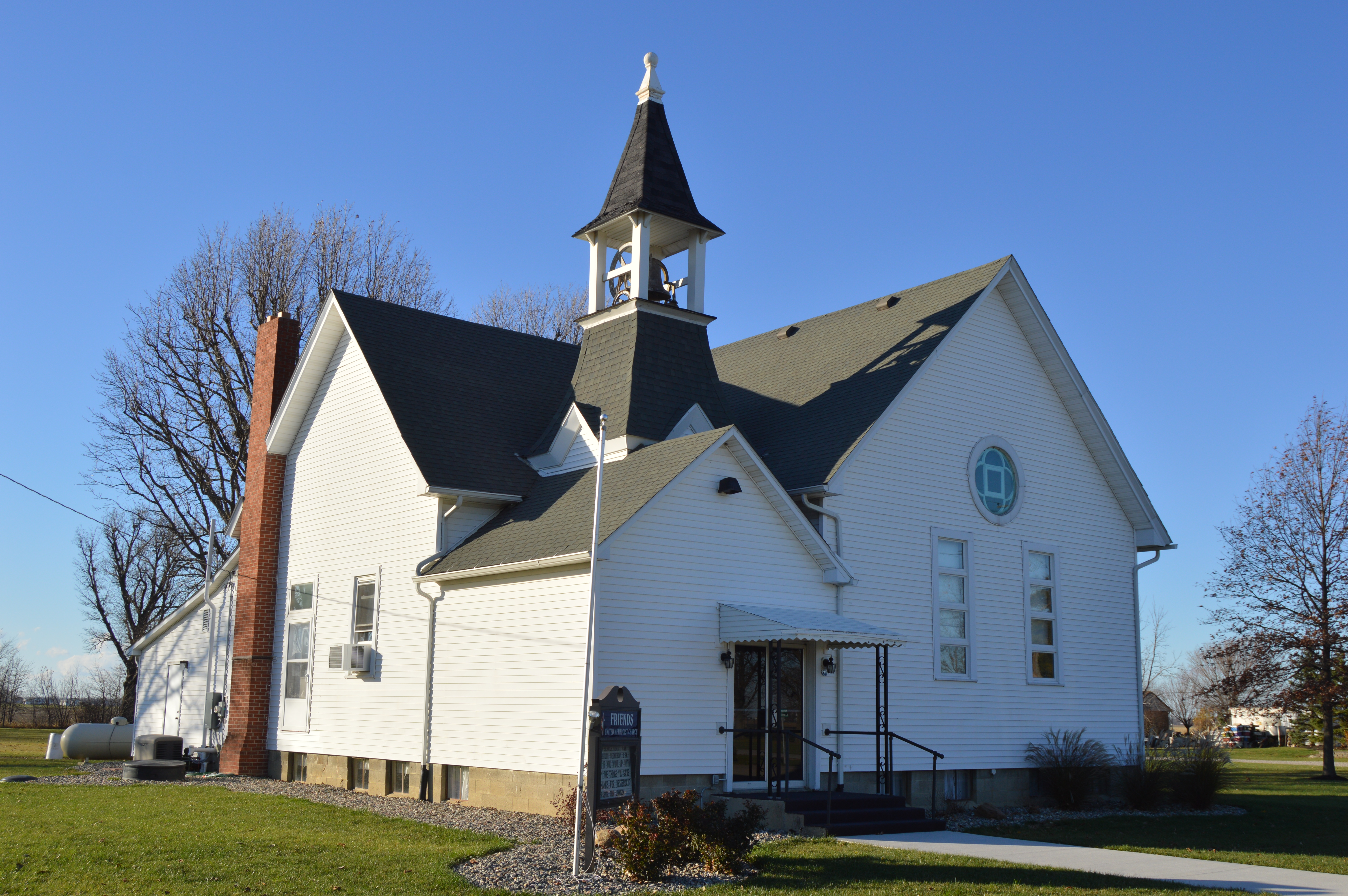 Front and southern side of Friends United Methodist Church, located at 331 Lewis Street in Latty, Ohio, United States.